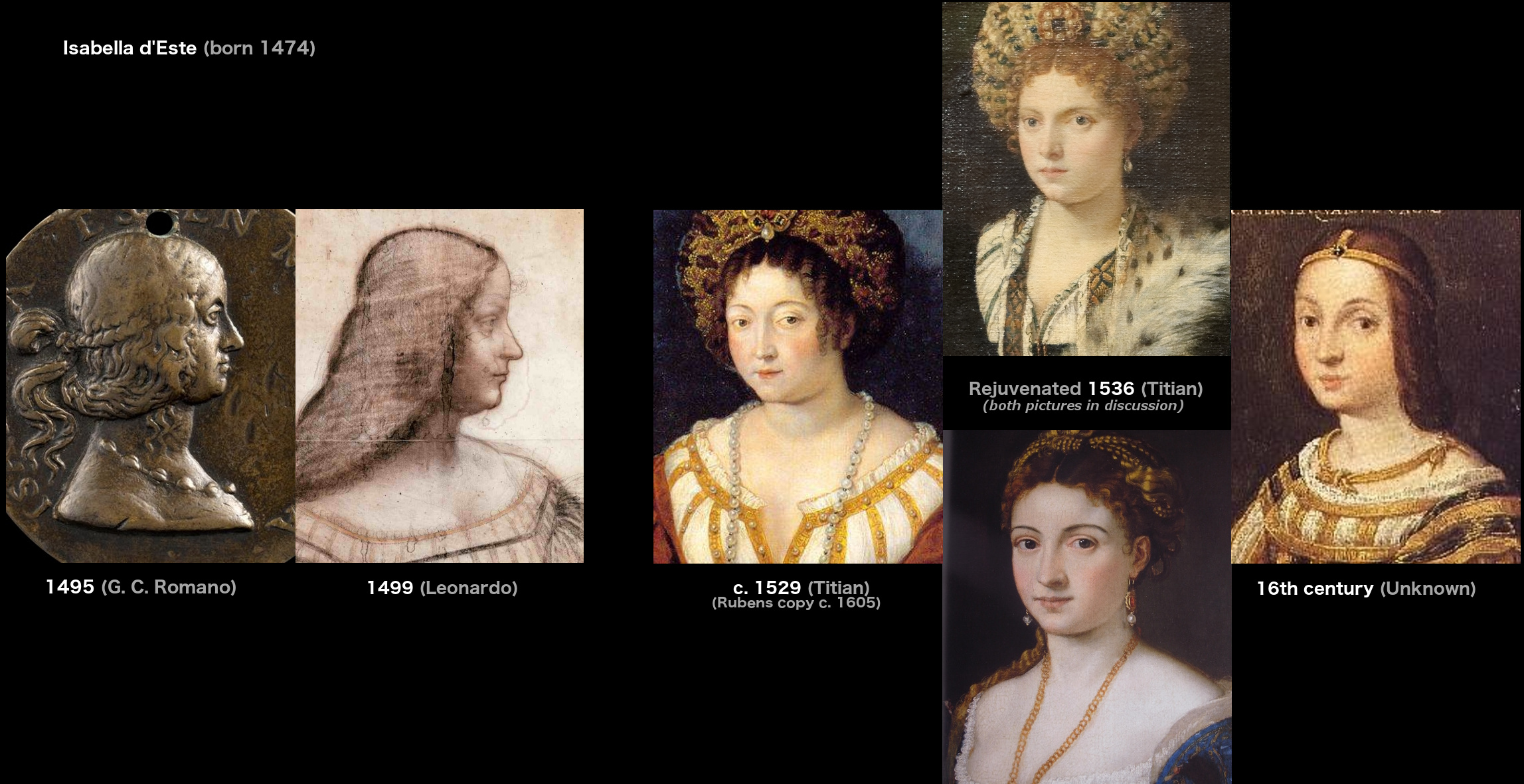 Person Isabella d’Este in portraits - Details of the pictures: Gian Cristoforo Romano – Medal / Leonardo da Vinci – Drawing / Titian (known by copy Peter Paul Rubens) – ‘Isabella in Red’ / Titian 1536 (rejuvenated) – ‚Isabella in Black’ versus ‚La Bella’ / Unknown – Ambras Miniature